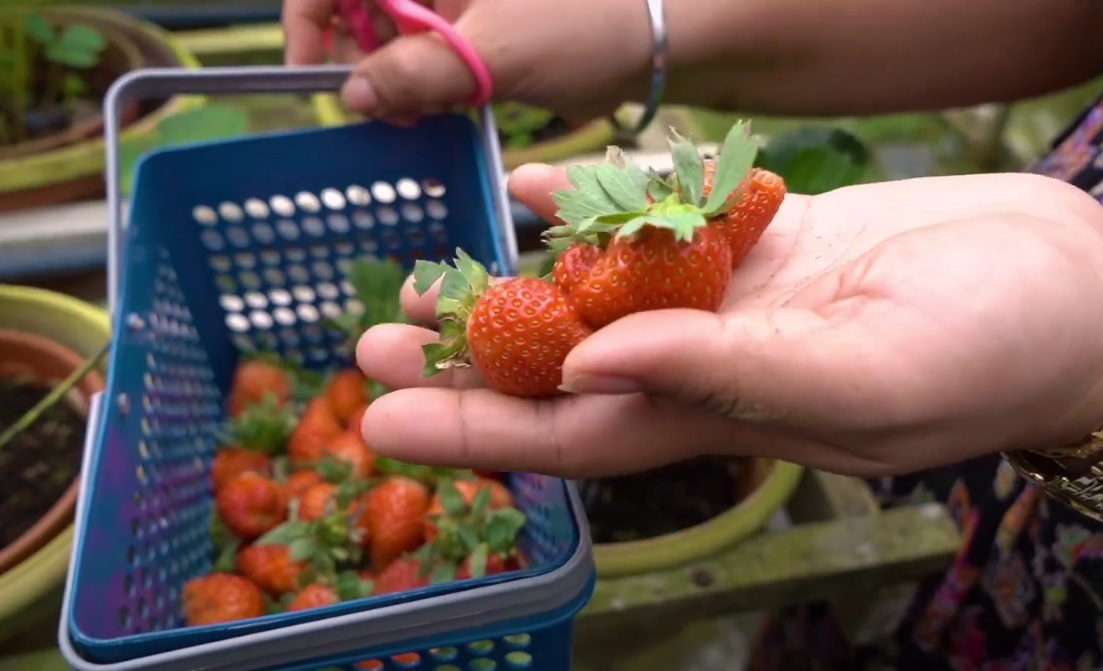 Strawberry picked from the strawberry farm in Fraser's Hill